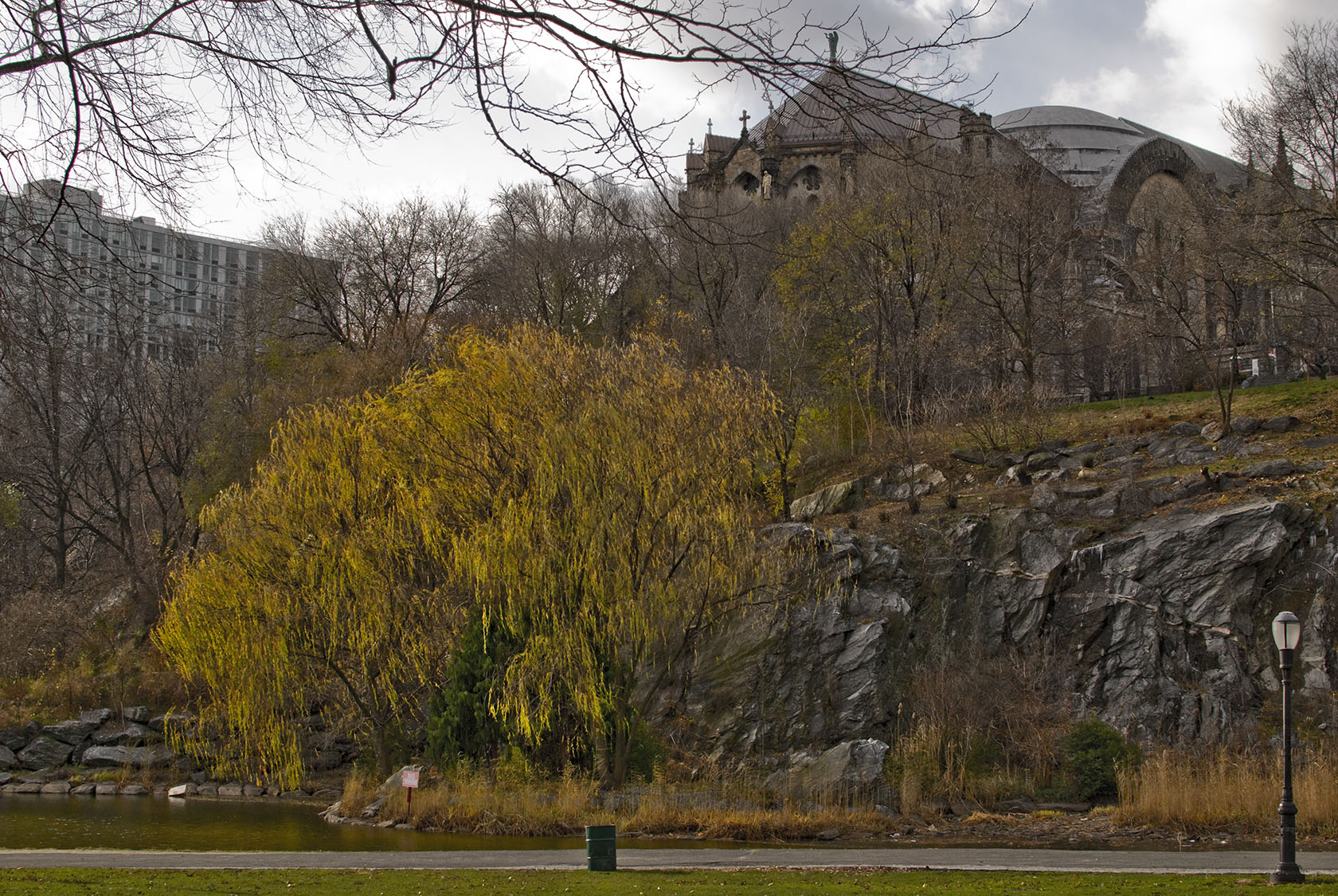 A willow tree by the lake in Morningside Park, NY. Part of the St. John's the Divine complex is visible in the background.